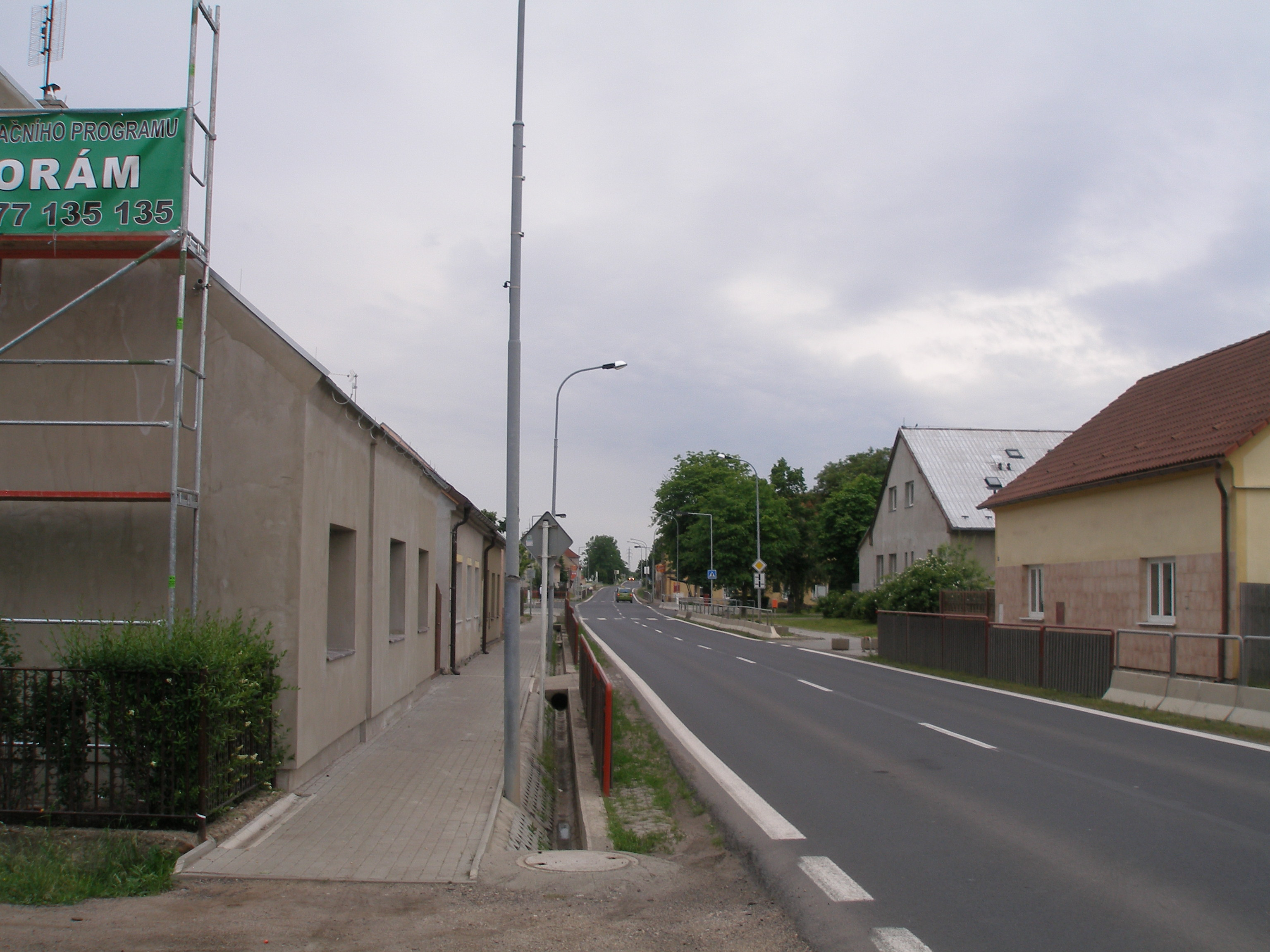 Otvice - the main street